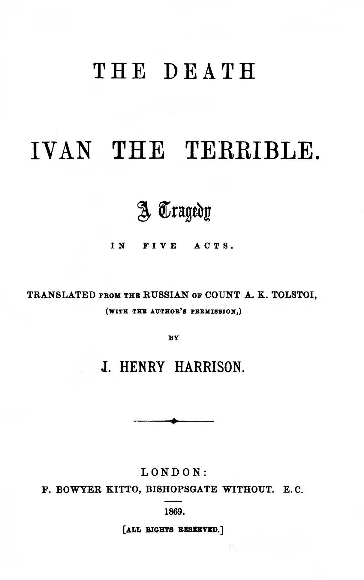 Ivan The Terrible, A.K.Tolstoy's tragedy cover, 1869